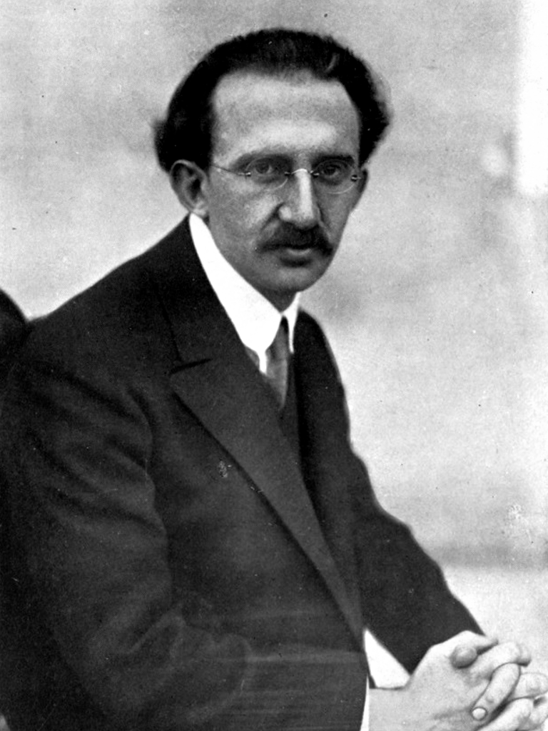 Lukács, Hungarian People's Commissar for Food in the Hungarian revolutionary government, 1919.